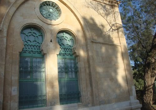 Beersheba Mosque, Architecture of Israel